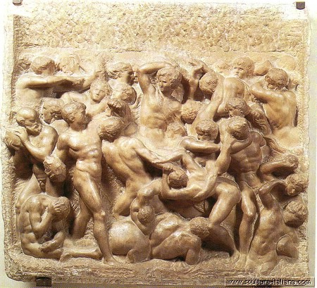 Zuffa dei centauri, by Michelangelo, Florence, Casa Buonarotti